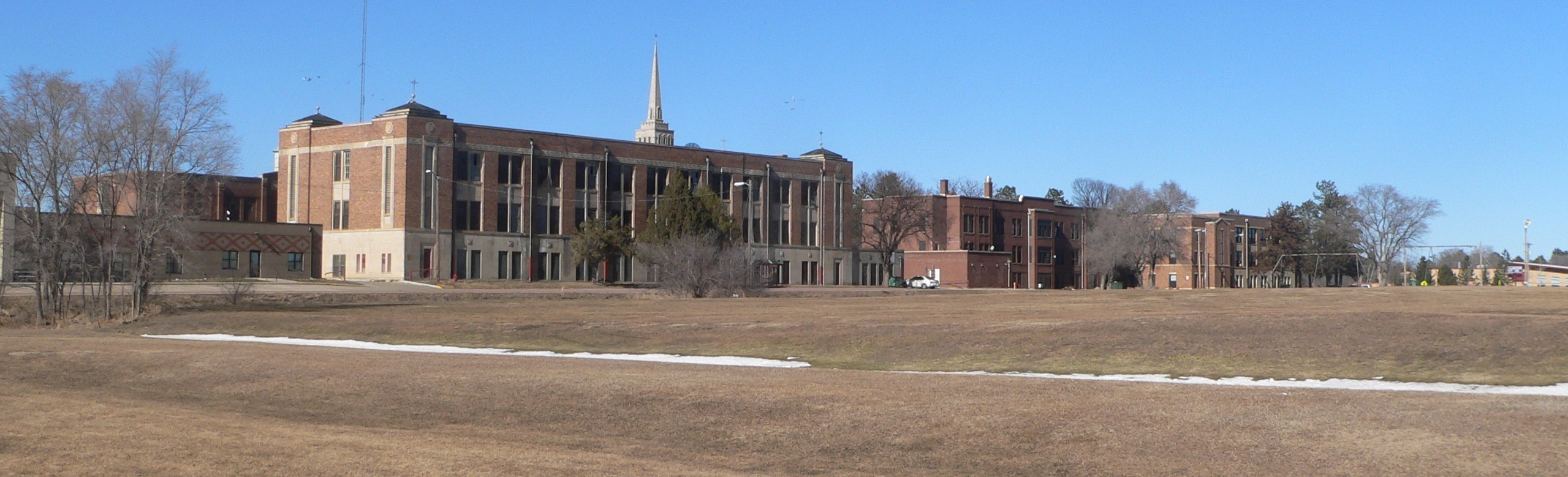 Southern portion of Marty Indian School in Charles Mix County, South Dakota; seen from the southeast.